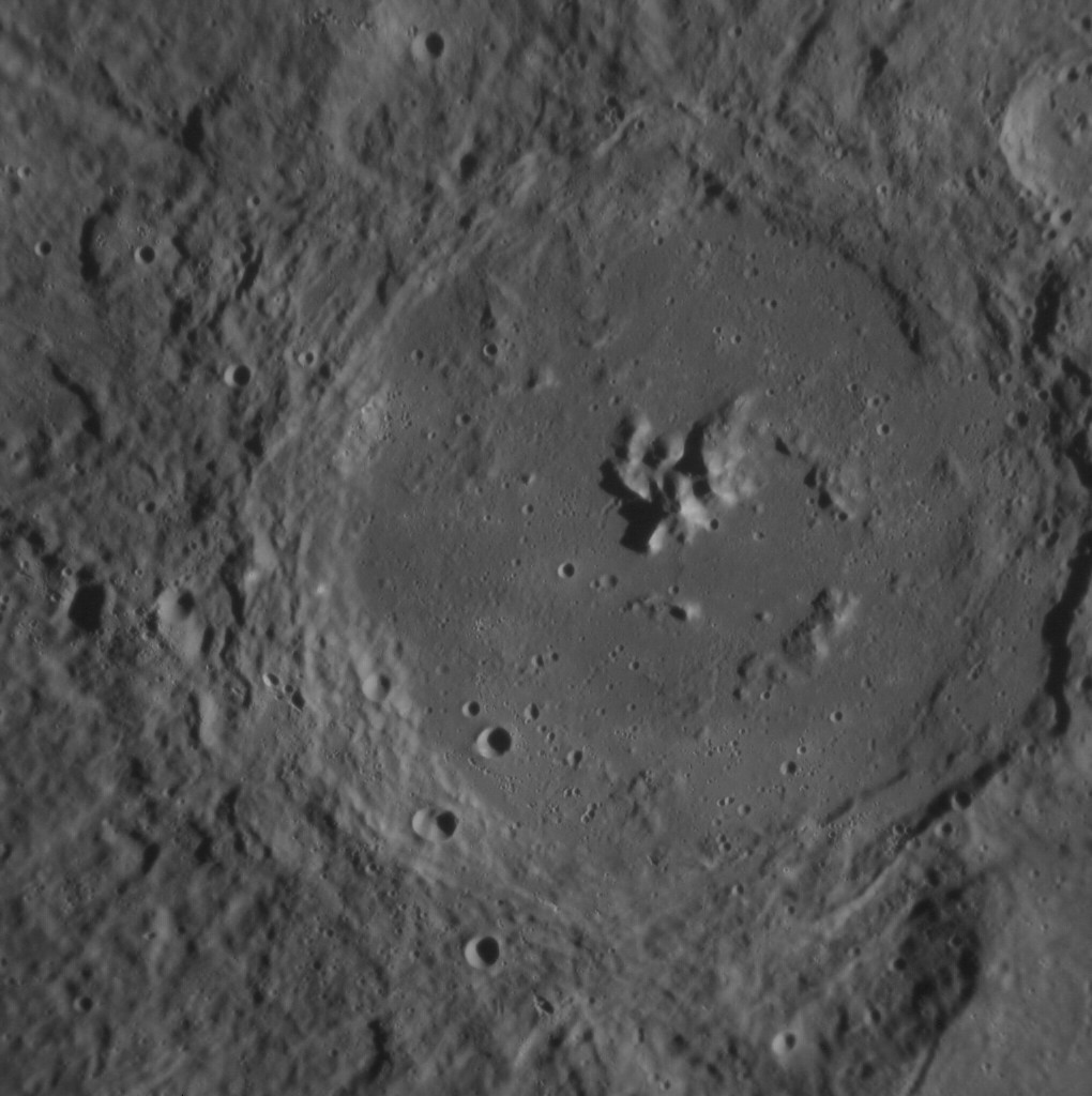 Joplin crater on Mercury. MESSENGER Narrow Angle Camera. Emission Angle: 23.6 Incidence Angle: 73.8 Latitude: -38.5 Longitude: 25.0 Phase Angle: 84.2